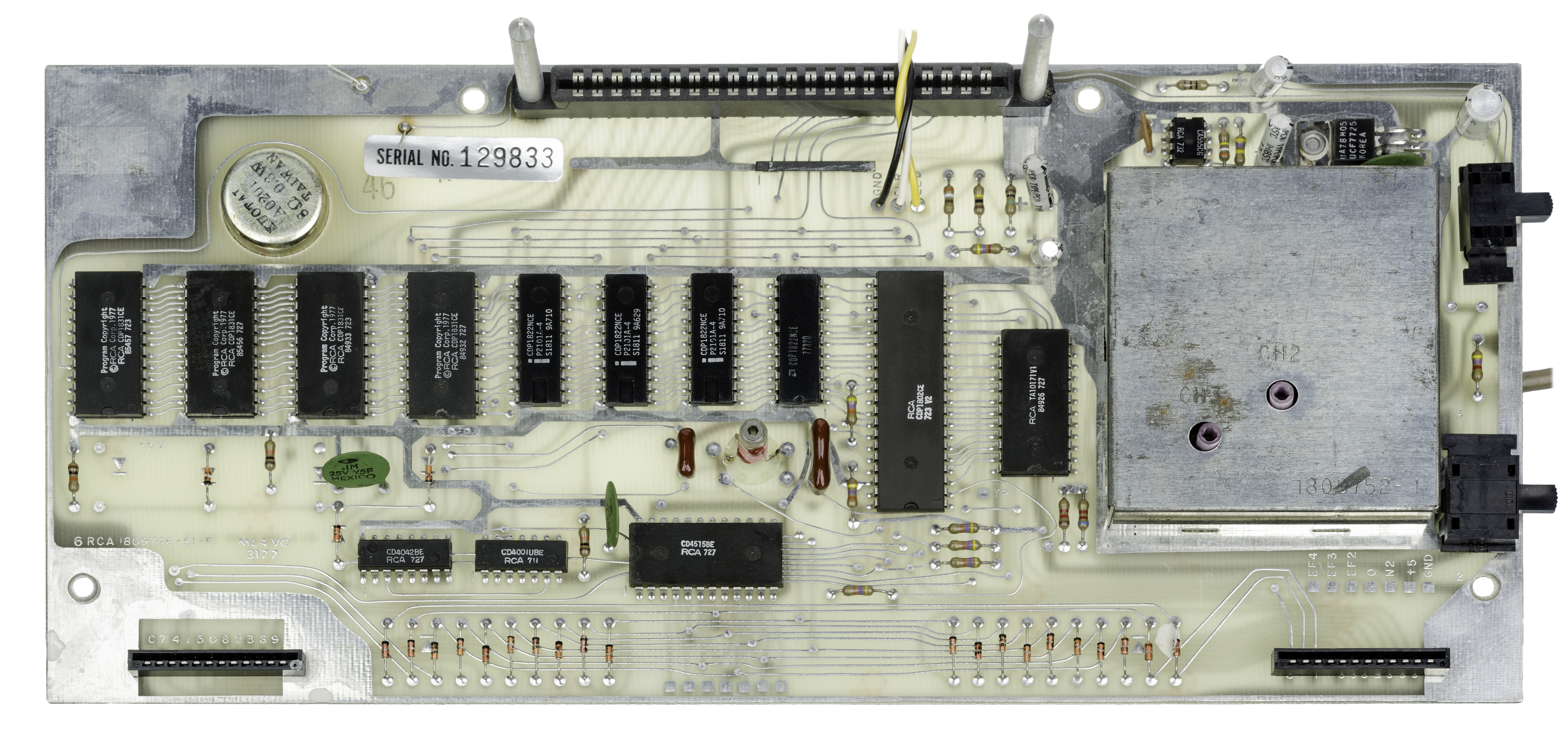 The top of a motherboard for an RCA Studio II video game console. The following list are the names and numbers of chips that appear on the motherboard. RCA CDP1831CE (x4) CDP1822NCE P2101A-4 (x3) CDP1822NCE 77320 RCA CDP1802CE 723 v2 PCA TA10171V1 84926 727 CD4042BE RCA 727 CD4001UBE RCA 711 CD4515BE RCA 727